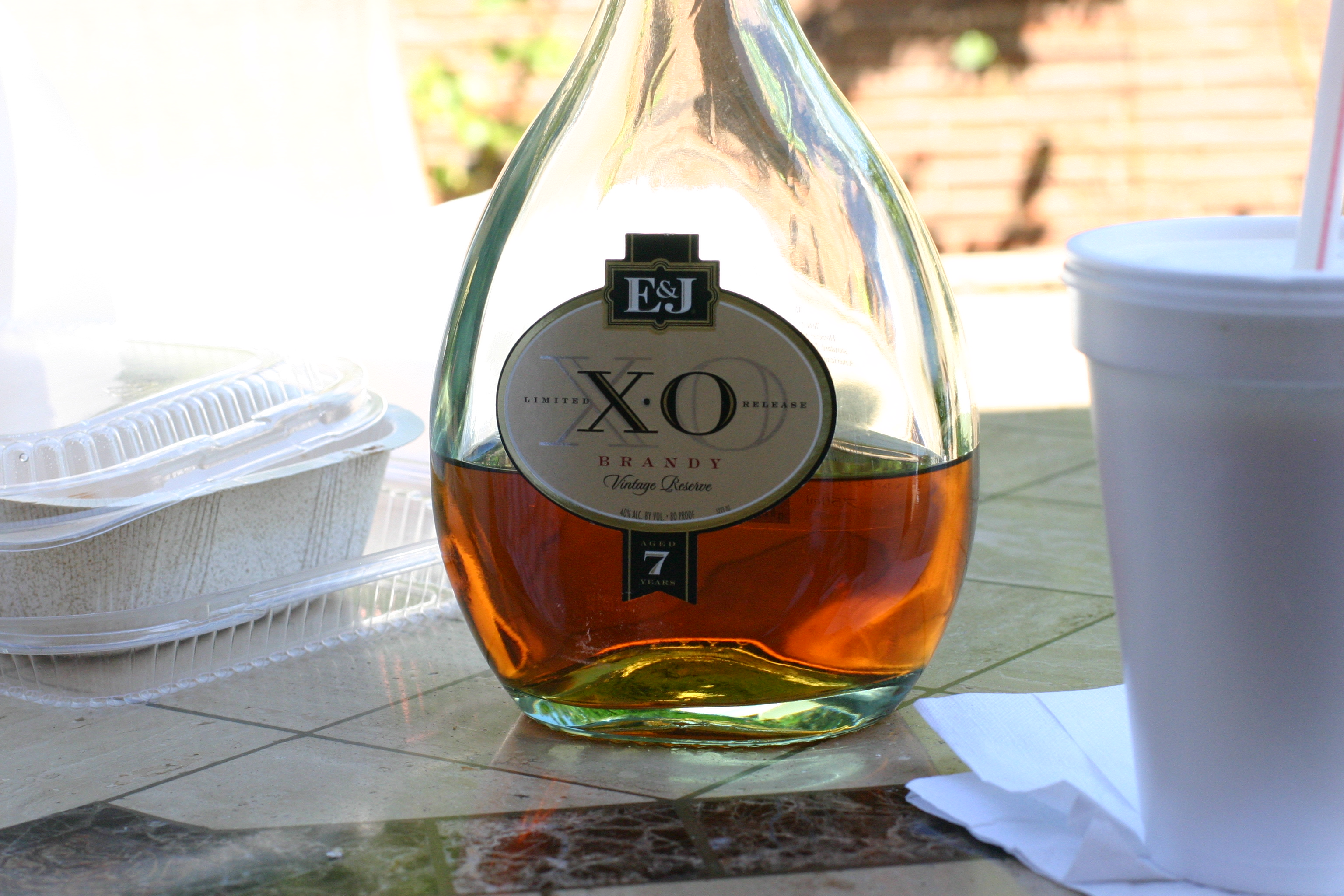 E&J Brandy XO vintage reserve